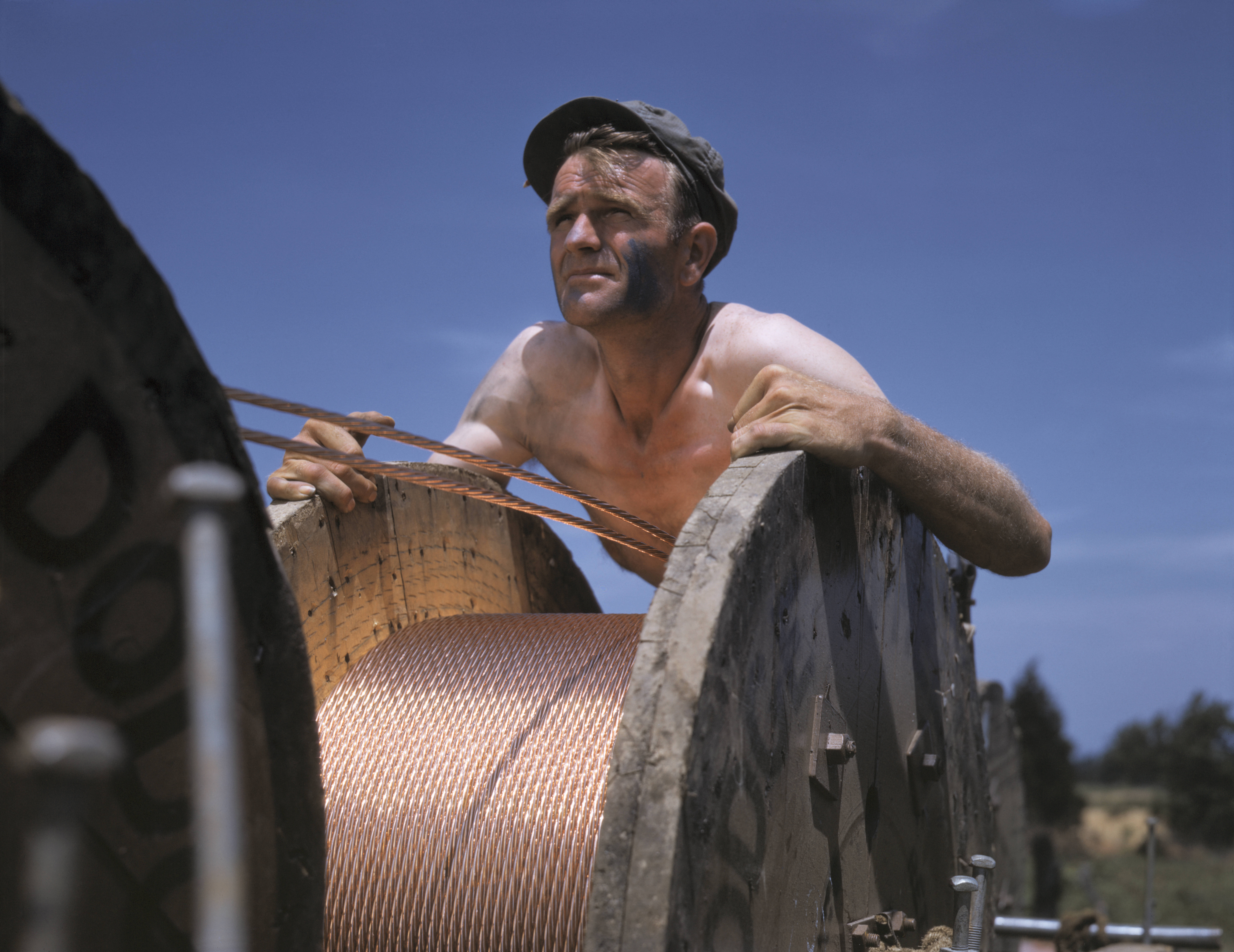 Member of a construction crew building a 33,000-volt electric power line into Fort Knox. Ft. Knox, Ky. Thousands of soldiers are in training there, and the new line from a hydroelectric plant at Louisville is needed to supplement the existing power supply.